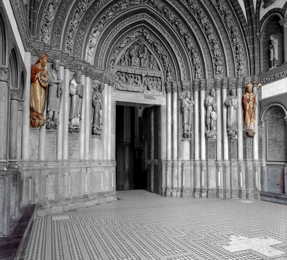 Basilica of Saint Servatius, Maastricht, the Netherlands. View of the South Portal ("Bergportaal"), an early-Gothic sculpted church portal, considered the earliest expression of Gothic art in the Netherlands. The coloured parts (benches + sculptures of Samuel and Saint Servatius) played a role in the judicial function of the portal in the Middle Ages. This is an edited version of a photograph uploaded by Rijksdienst voor het Cultureel Erfgoed on 17 January 2013. Alterations by Kleon3.